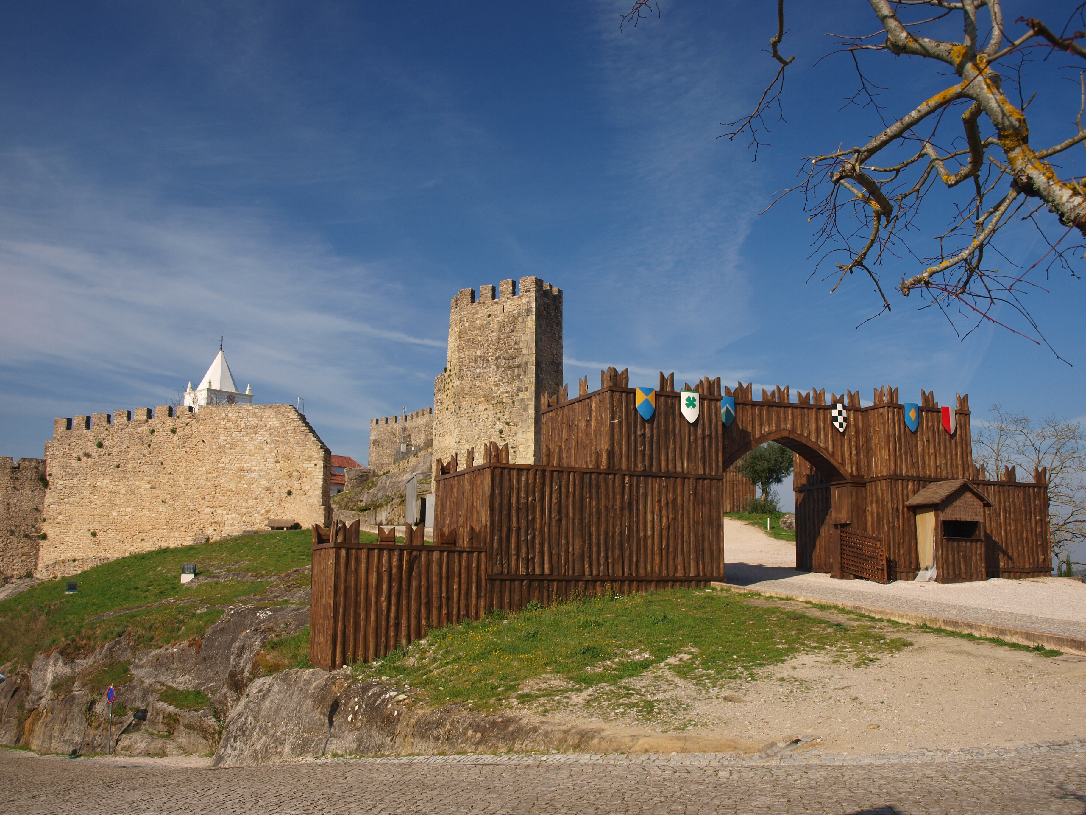 Castle of Penela, Coimbra, Portugal.